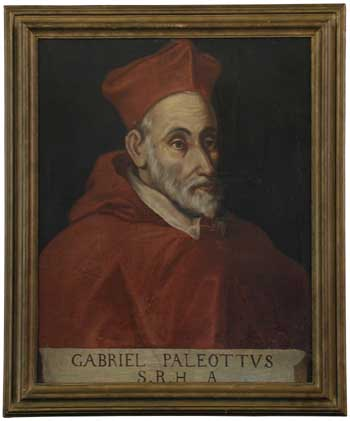 Painting of Gabriele Paleotti